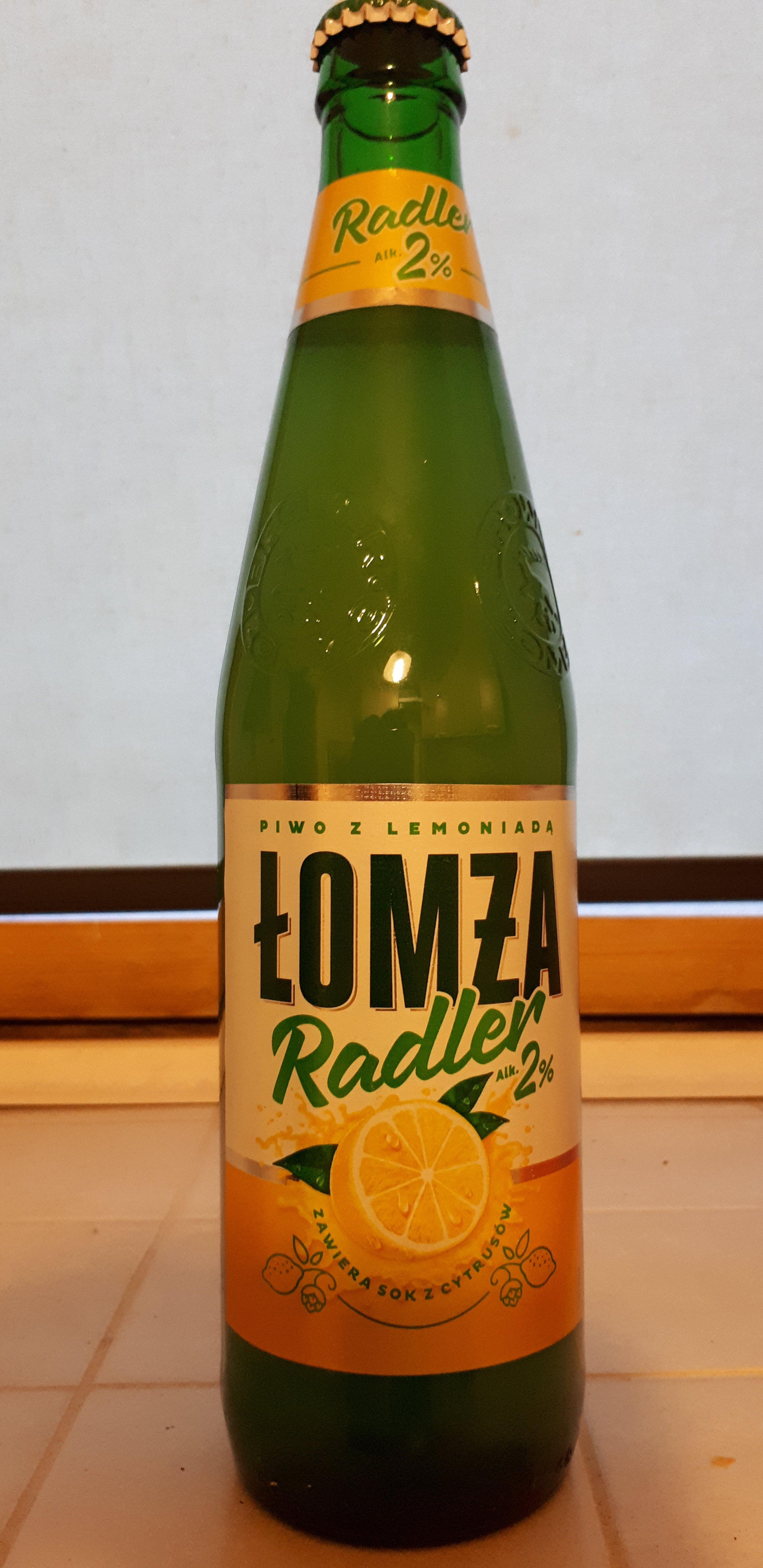 Łomża beer